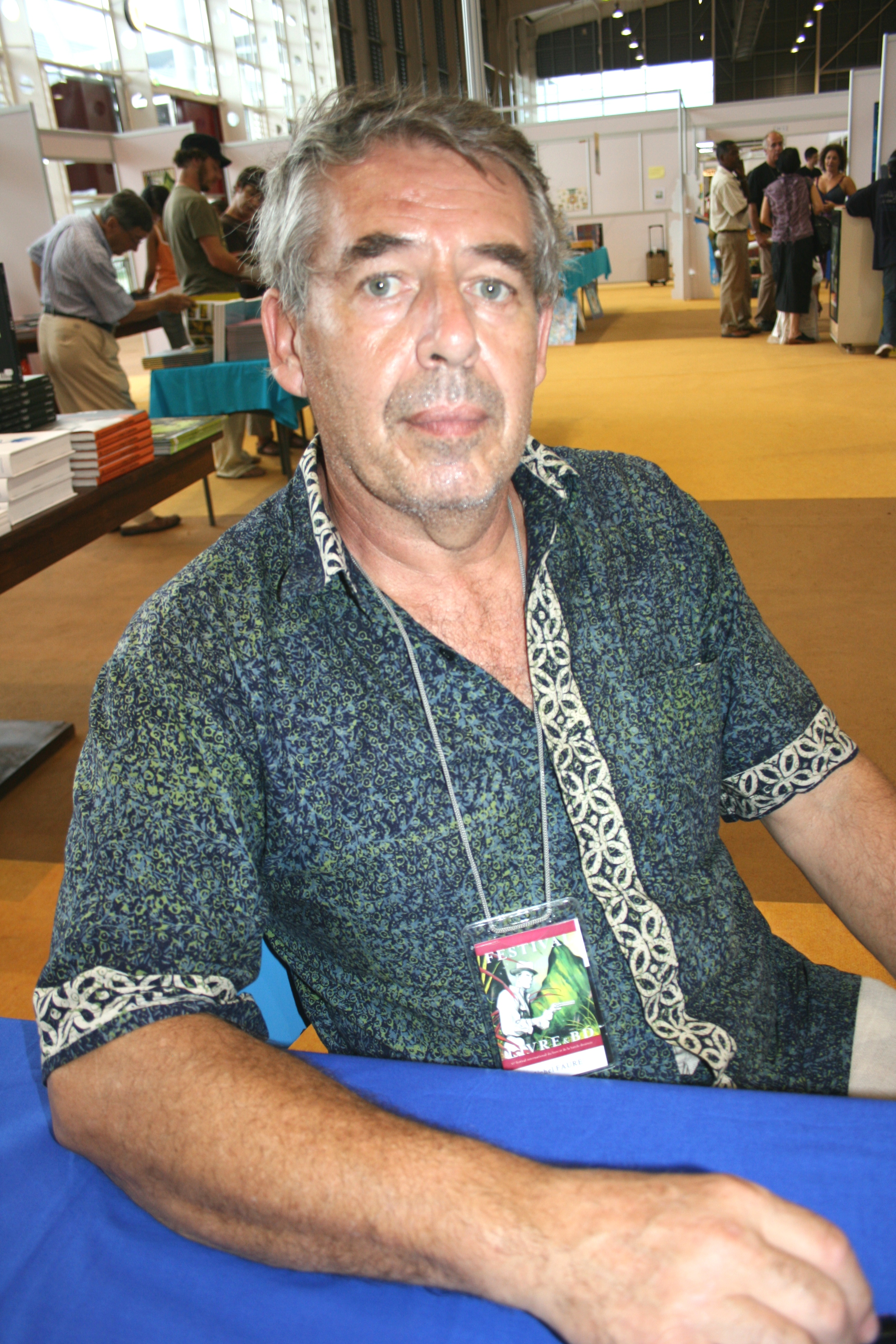 The French cartoonist Michel Faure at the 6th Festival du livre et de la bande dessinée, Saint-Denis, Réunion.